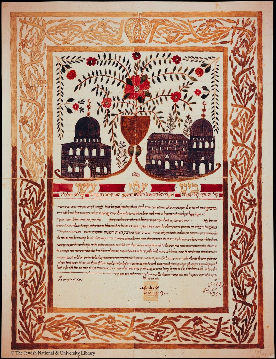 Ketubah from The Ketubbot Collection of the National Library of Israel